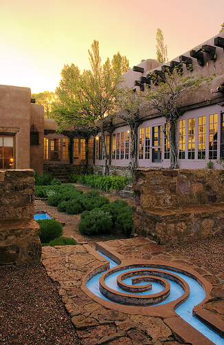 School for Advanced Research (SAR) Campus, Santa Fe, New Mexico. May 31, 2007.